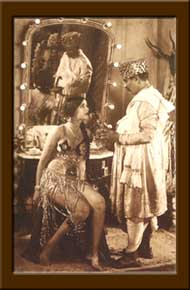 Zubeida, a silent era actress in Indian Cinema, (before 1936).